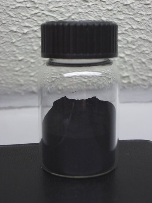 Copper(II) oxide